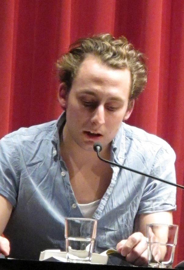 Christoph Szalay at the Presentation of "Lyrik von Jetzt 3"